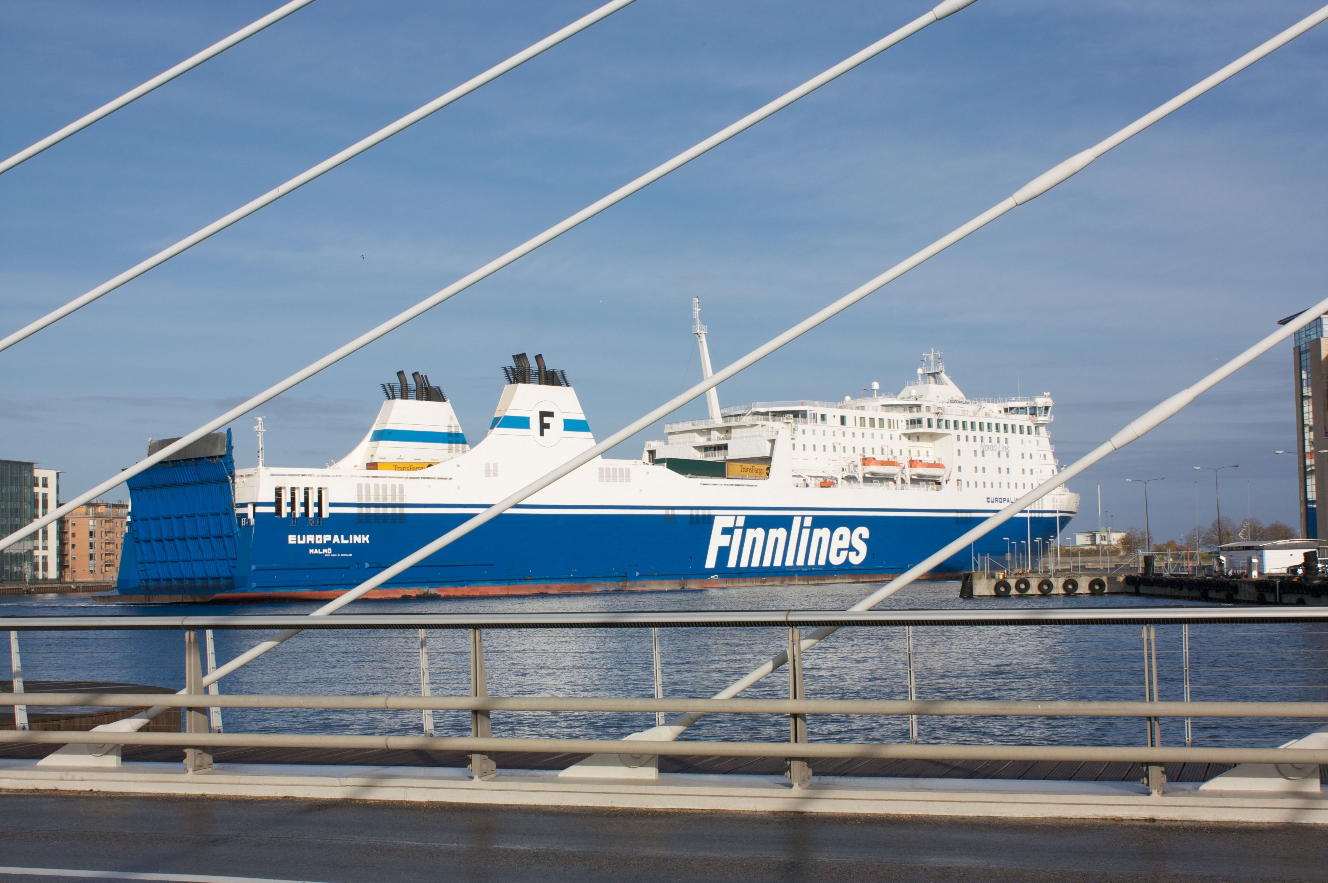 Finnlines freighter MS Europalink.